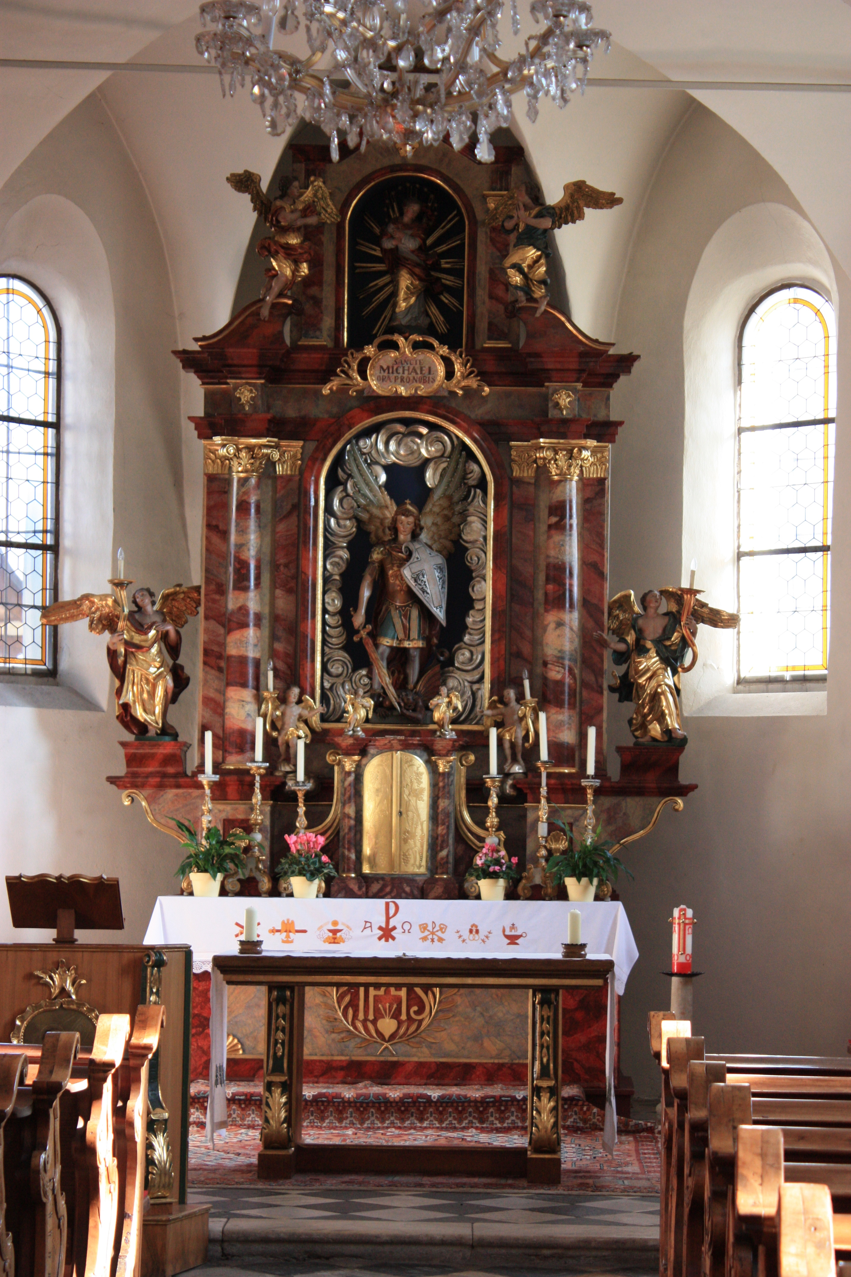 Subsidiary church "Saint Michael" - Main altar Locality: Ossiacher Straße Community:Feldkirchen in Kärnten